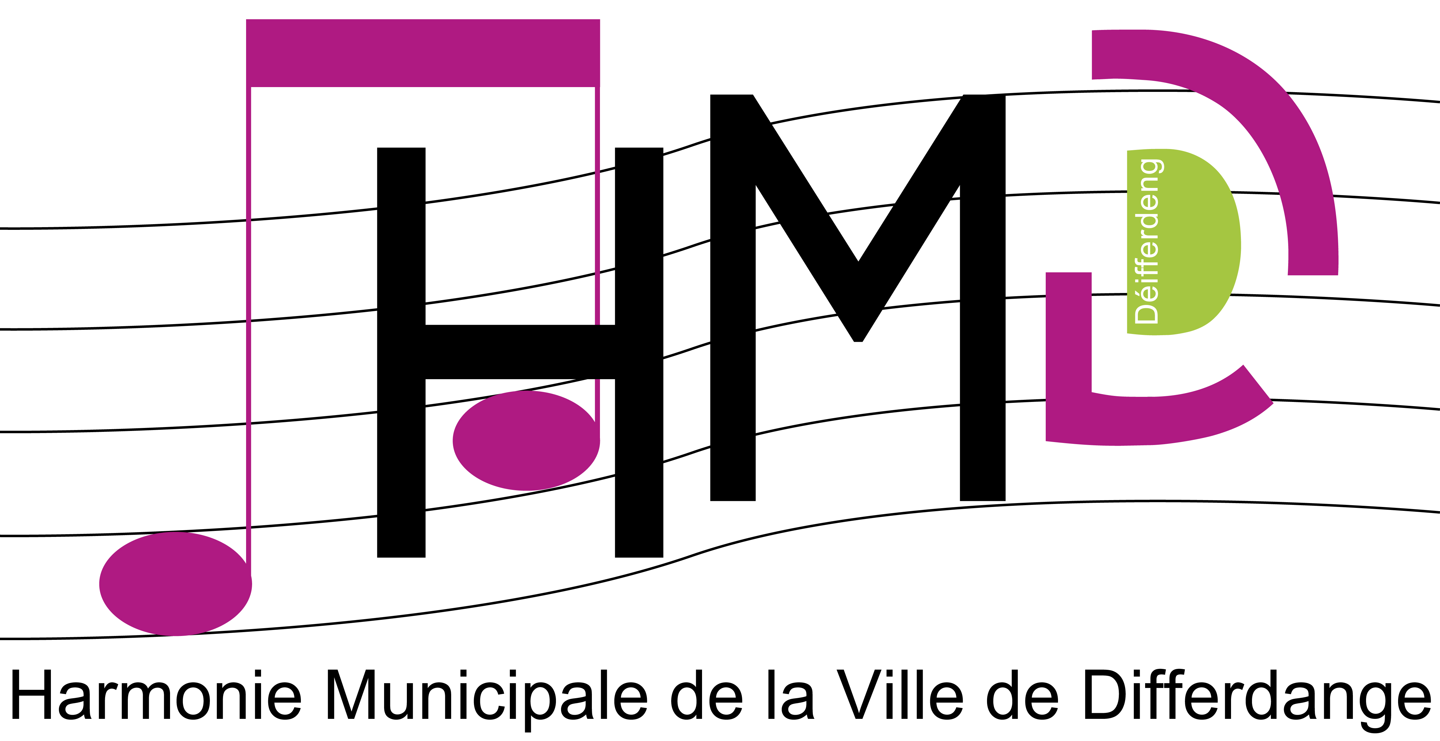 Logo Harmonie Municipale de la Ville de Differdange